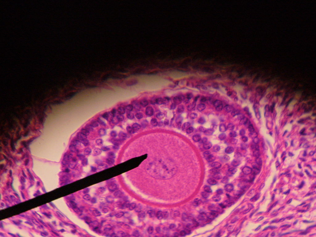 Digital camera shot though a microscope; human primary follicle.